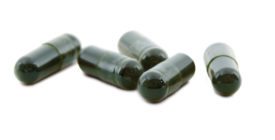 Spirulina (dietary supplement) capsules made from cyanobacteria genus Arthrospira